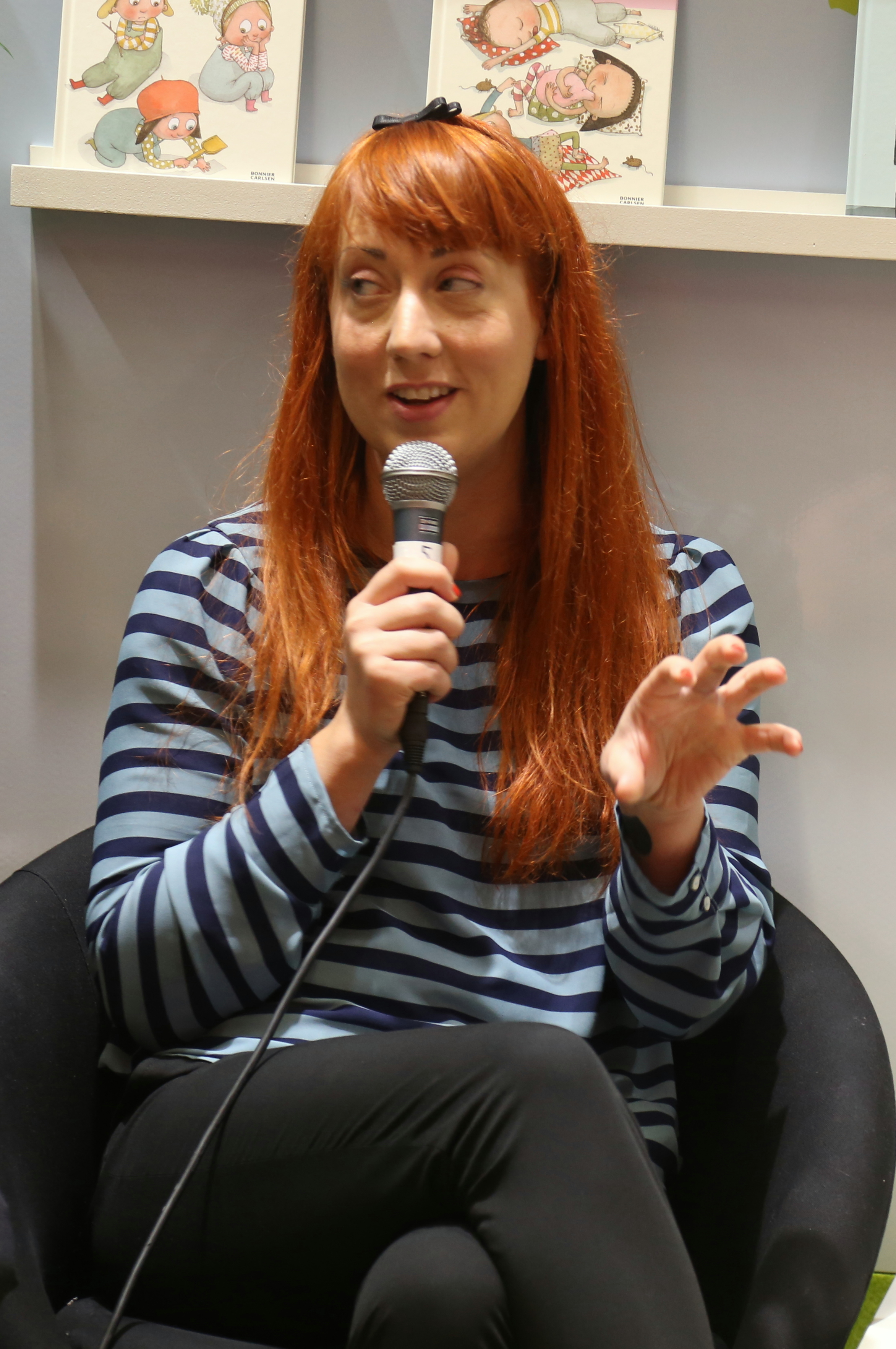 Maria Nilsson Thore at the Gothenburg Book Fair 2014.